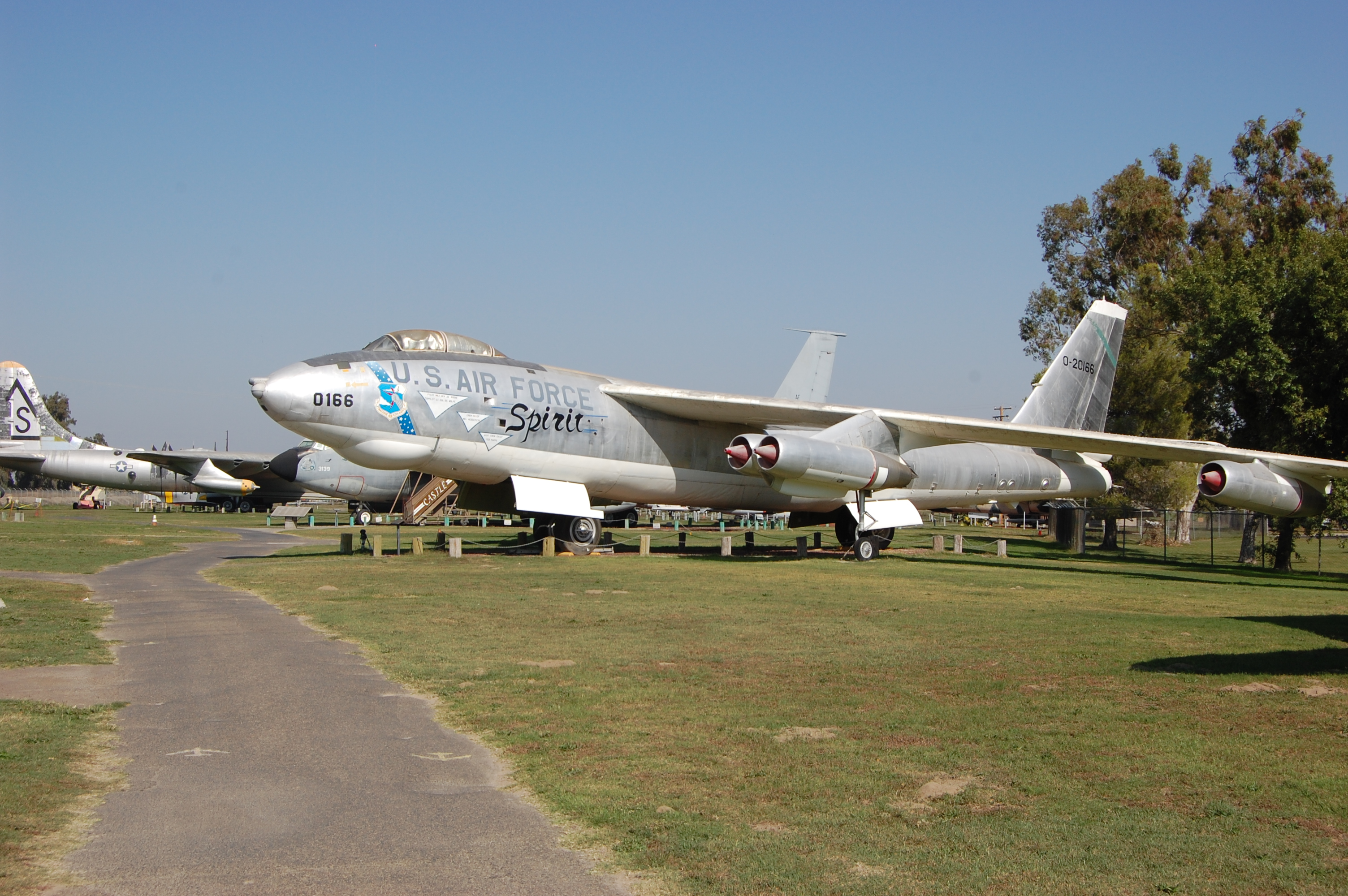 A Boeing B-47 Stratojet on display at Castle Air Museum